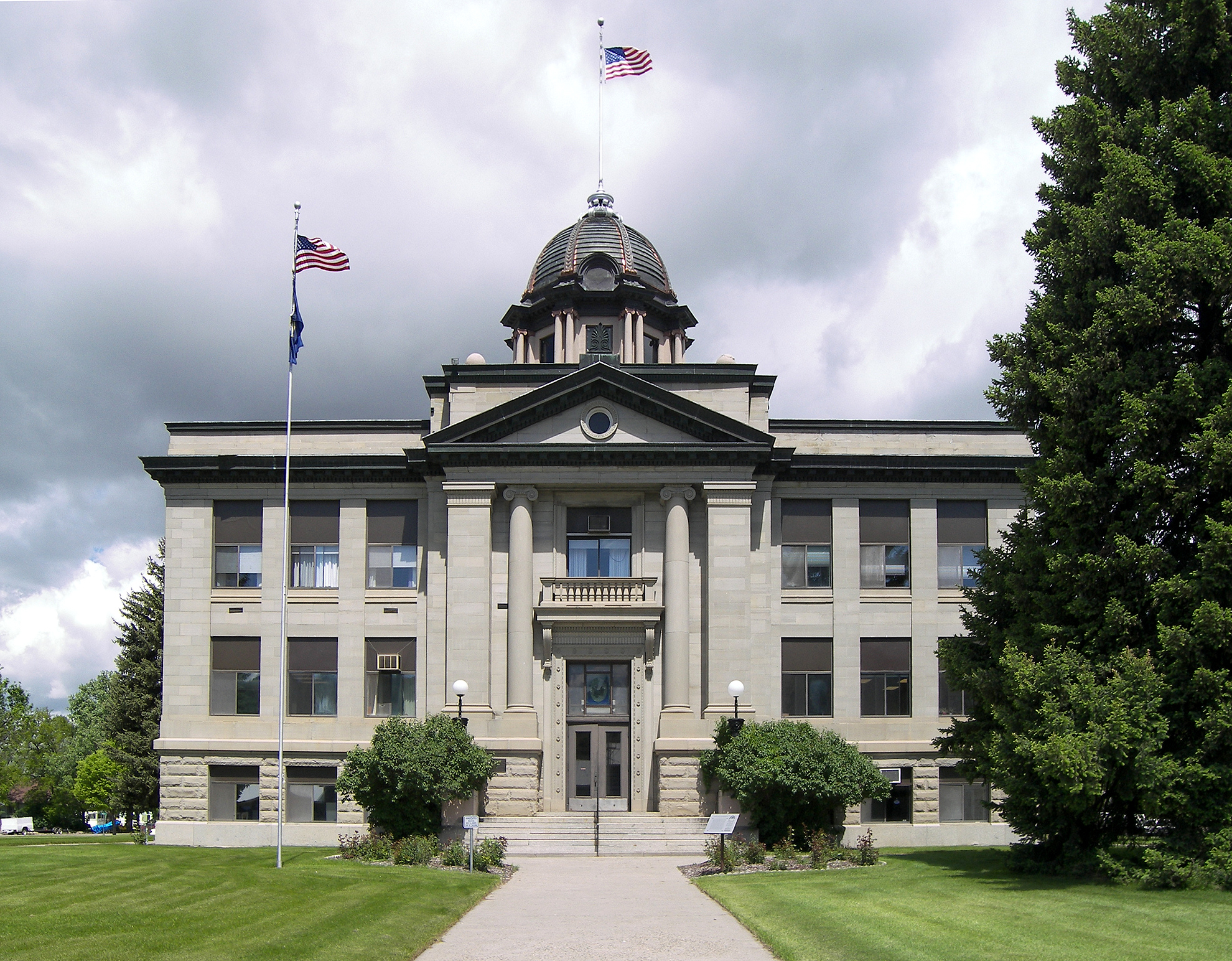 The Rosebud County, Montana courthouse located in Forsyth, Montana, United States. The building was listed on the National Register of Historic Places on April 17, 1986.